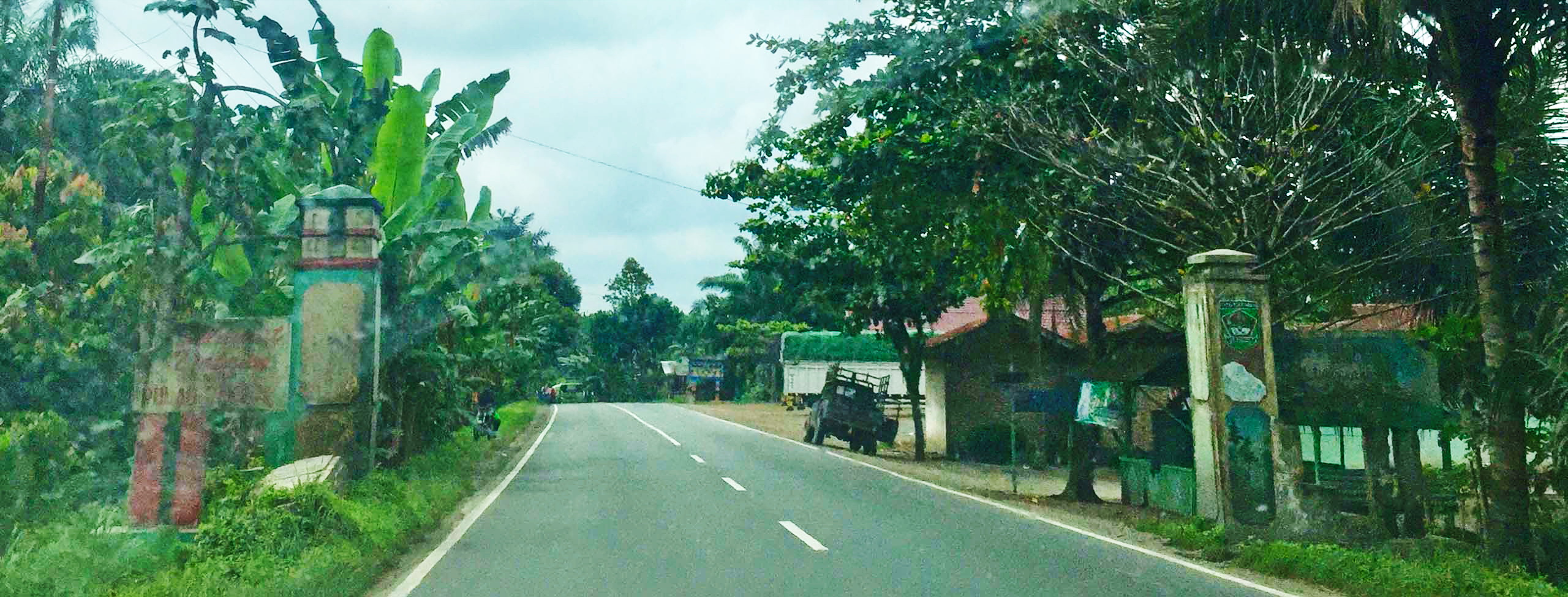 welcome gate to Pulau Rakyat, Asahan